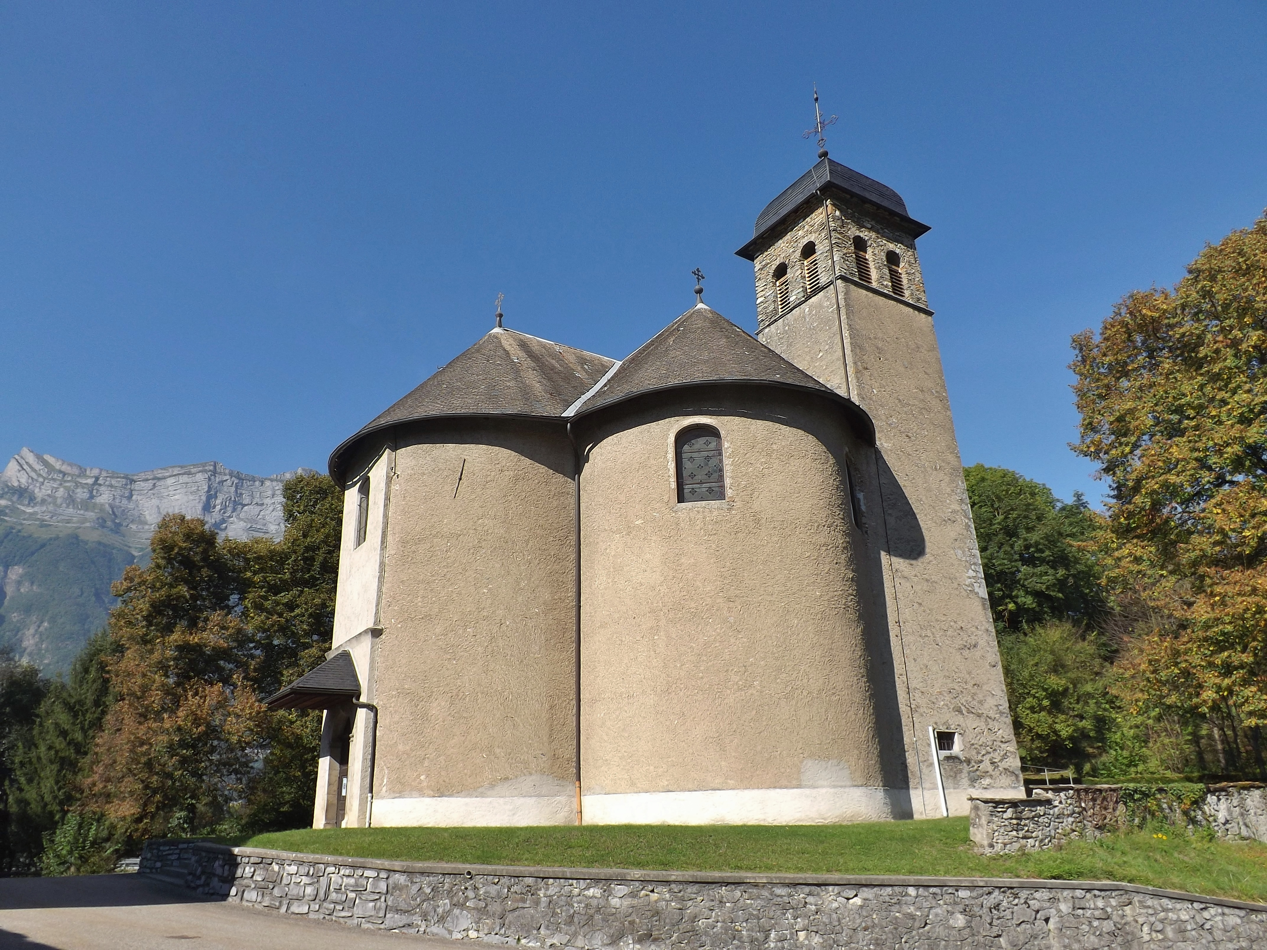 Sight of the église Saint-Maurice church, on the French commune of Chamousset, in Savoie, France.